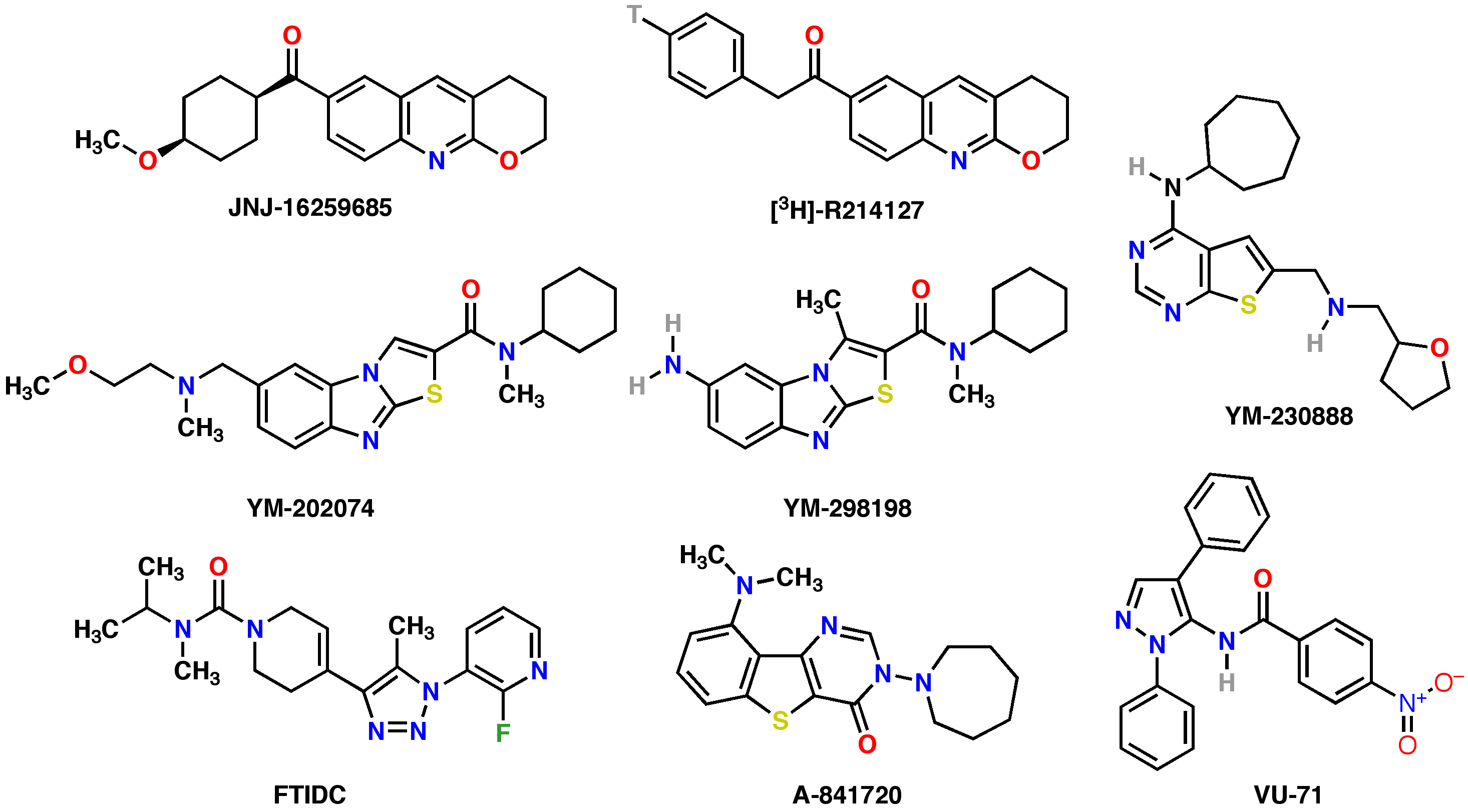 Created myself using Cambridgesoft ChemDraw